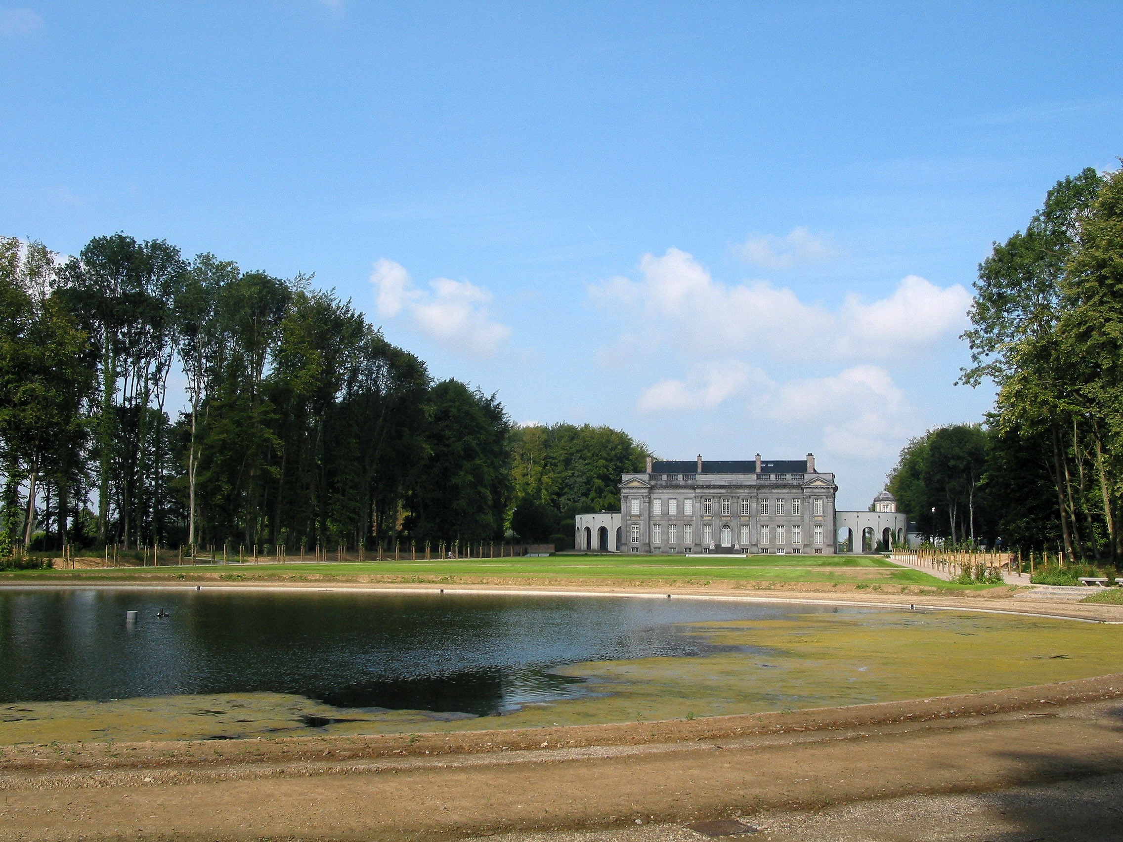 Seneffe (Belgium), the back side of the castle and the park (1763/1768 - Architect: Laurent-Benoit Dewez).